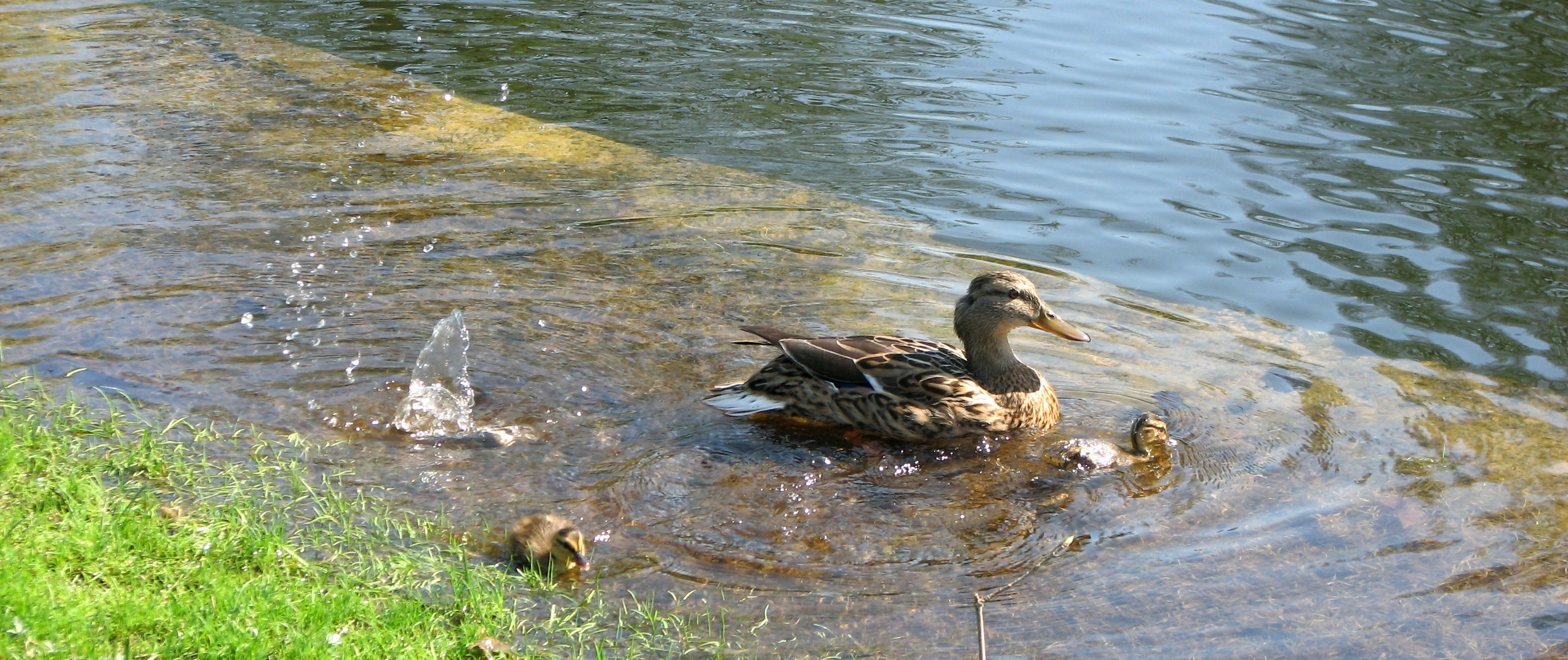 Female mallard with ducklings. "Mum, I'm just doing my first splash and you are not even watching!"